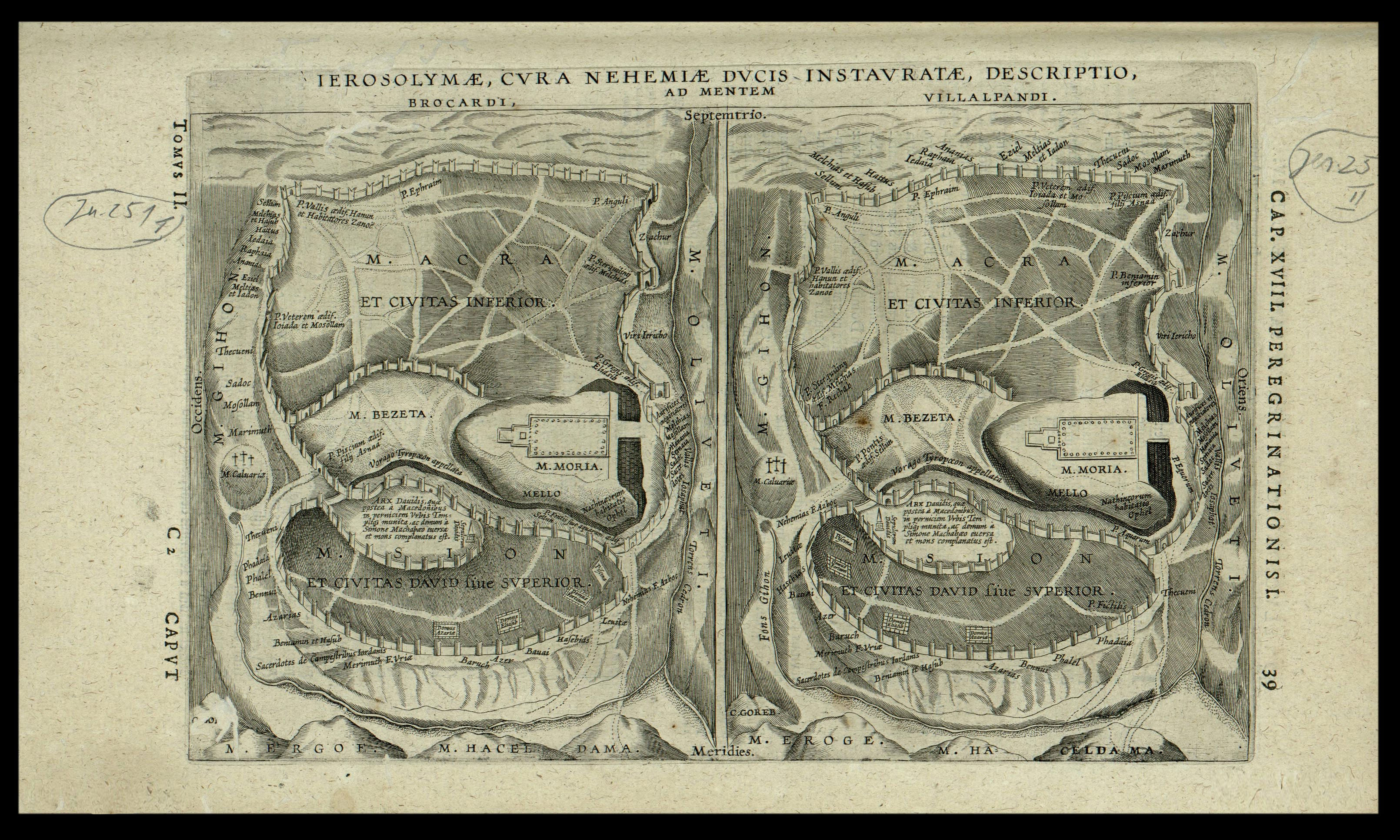 Two plans of ancient Jerusalem by Quaresmius. Drawn after Burchardus and Villalpando. 1639.